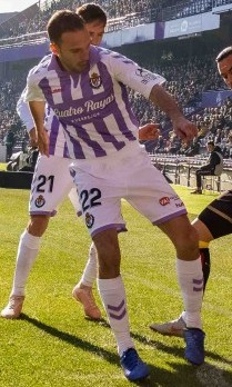 Real Valladolid - Rayo Vallecano, 18th fixture of the 2018-19 La Liga, January 5, 2019.